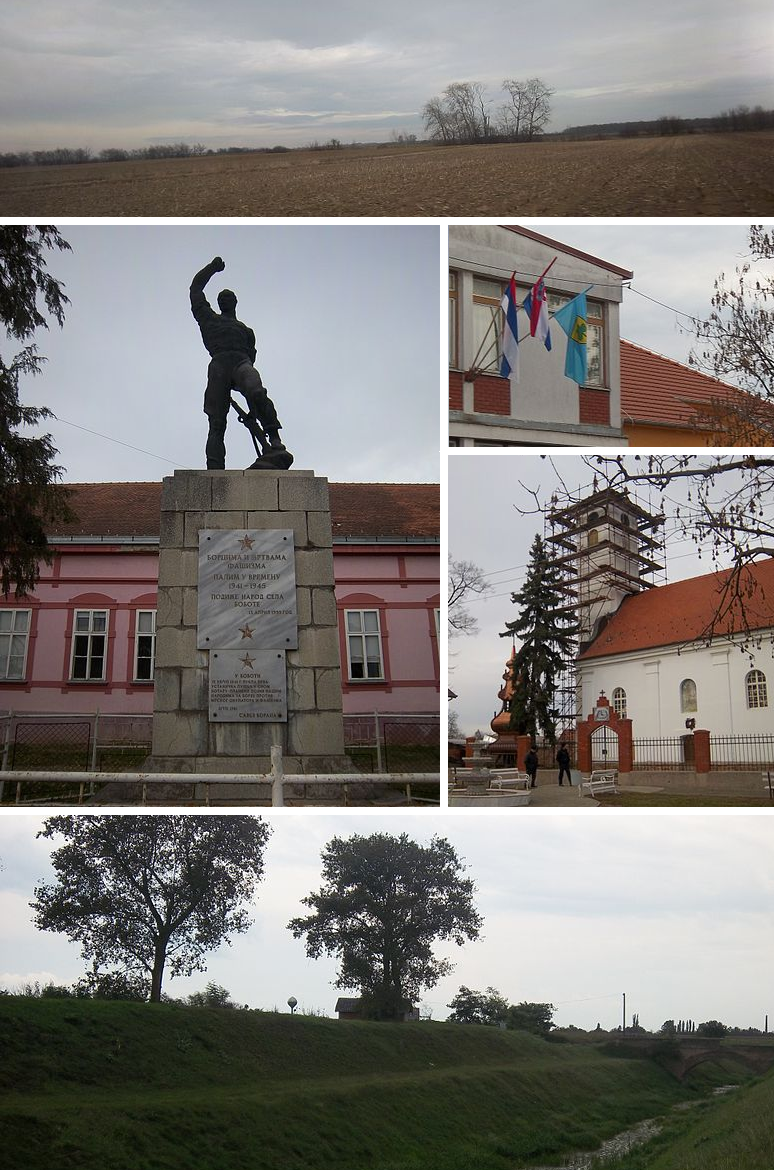 Photos from village Bobota in Croatia (all of them my own wotk)